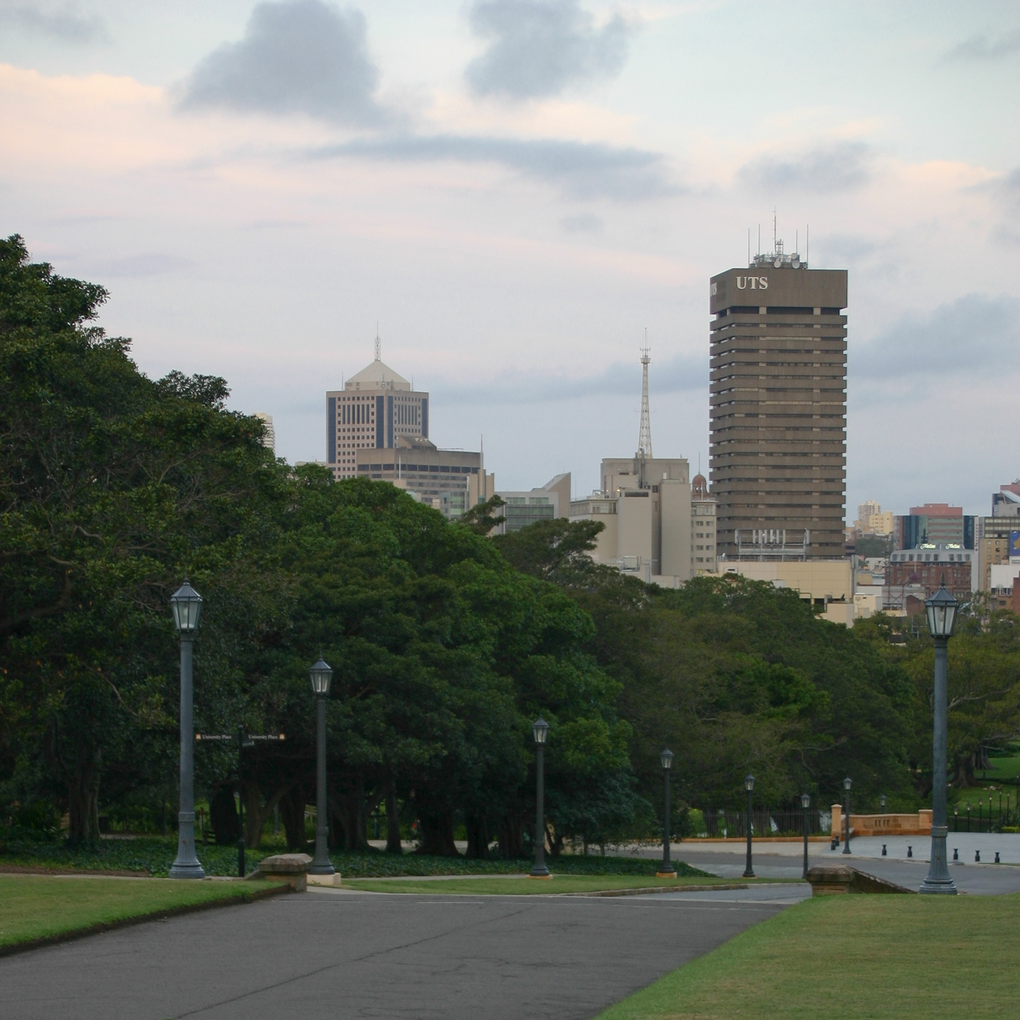 UTS Tower as seen over Victoria Park